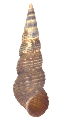 Photo of an apertural view of a shell of Tylomelania perfecta.